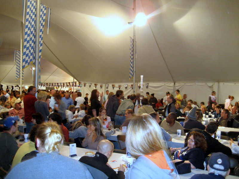 Scene during the 2008 Oktoberfest of the Delaware Saengerbund, Delaware, USA